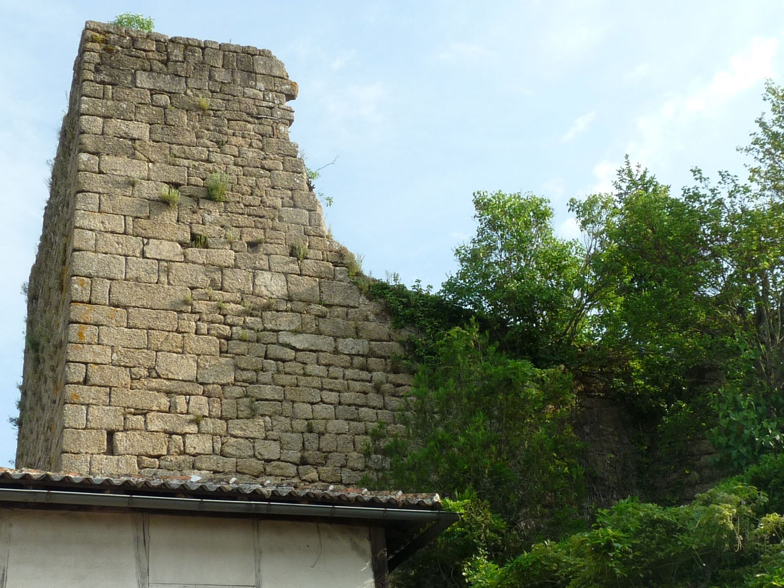 Tower of the old castle of Confolens, Charente, SW France